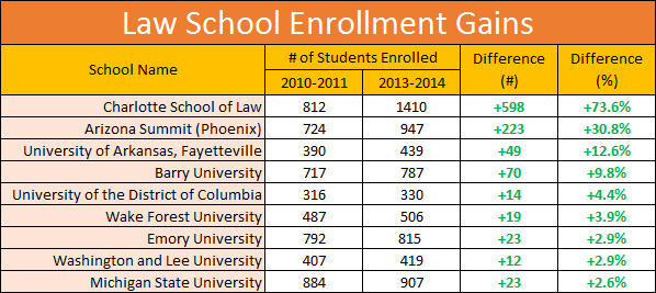 chart